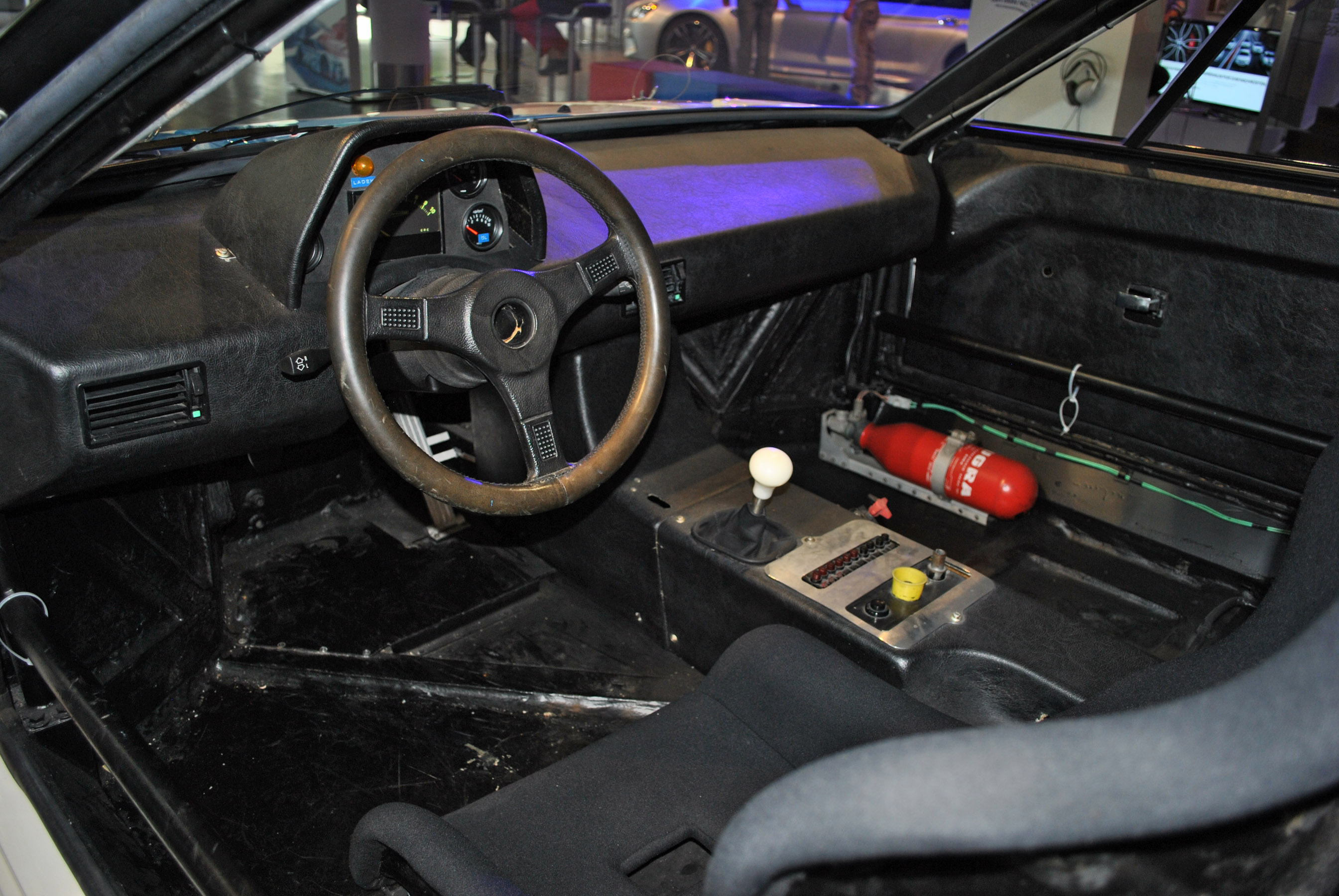 BMW M1 Procar of Nelson Piquet, BMW Kurfürstendamm, Berlin